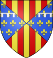 Coat of arms of Jean d'Aragon, Comte de Prades. See File:Blason Jean d'Aragon, Comte de Prades (selon Gelre).svg